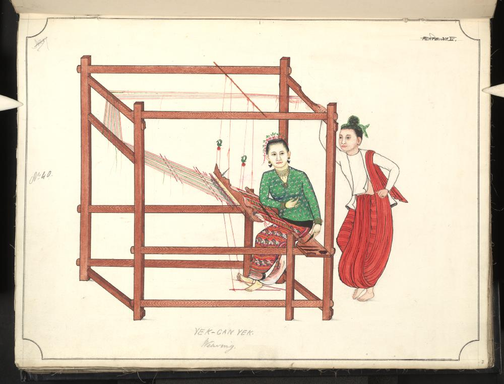 Watercolour painting by an unknown Burmese artist depicting 19th century Burmese life. Text: "YEK-CAN YEK. Weaving." This picture depicts the weaving of silk on a loom to make a "Putsoh" or body-cloth. The person admiring the weaver is wearing one such Putsoh. "The patterns are worked in by small shuttles passed from hand to hand. Sometimes as many as 100 shuttles are used in one piece of cloth."- from the description at [1]